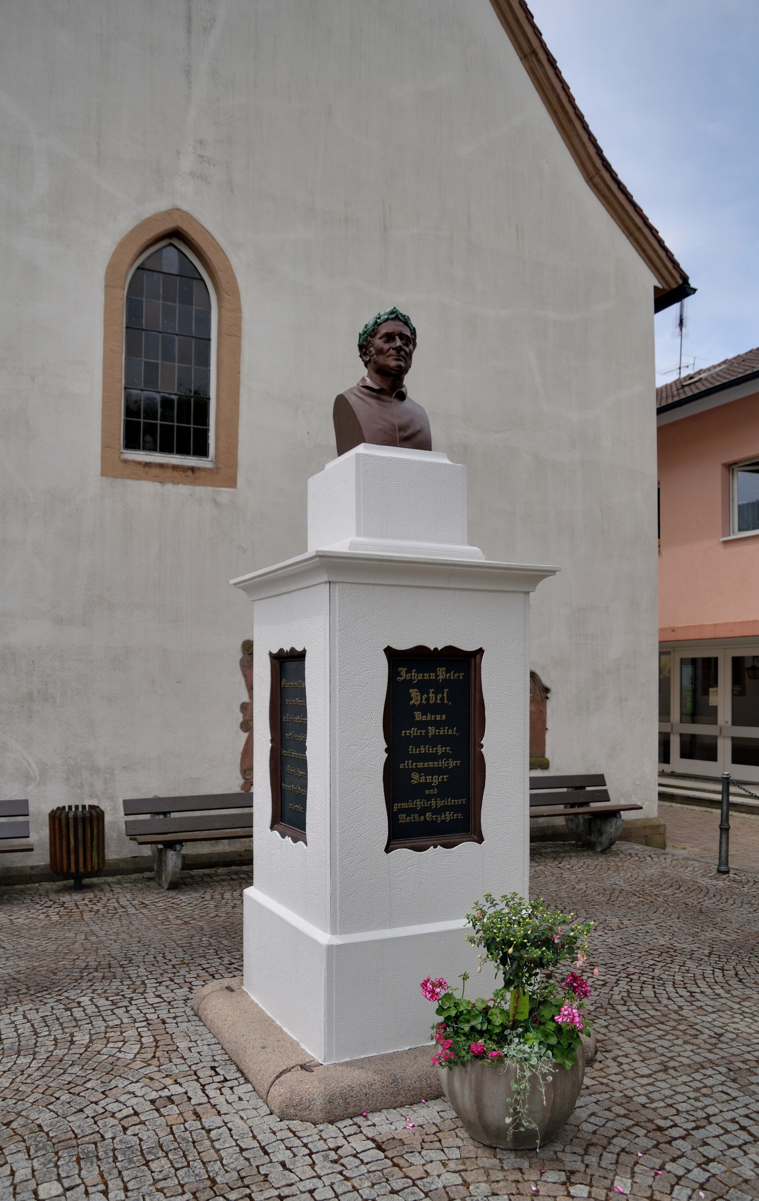 Hausen im Wiesental: Hebel memorial